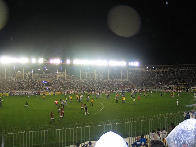 CR Vasco de Gama at Estadio Sao Januario